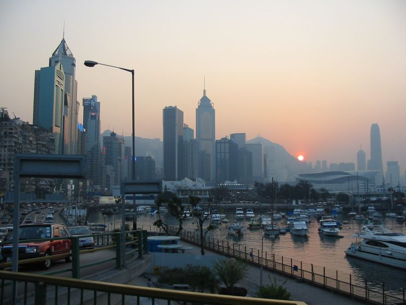 Hong Kong sunset